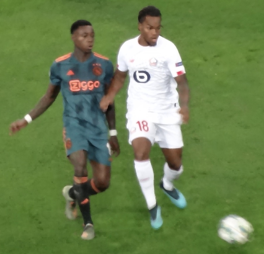 Renato Sanches (LOSC) vs Ajax